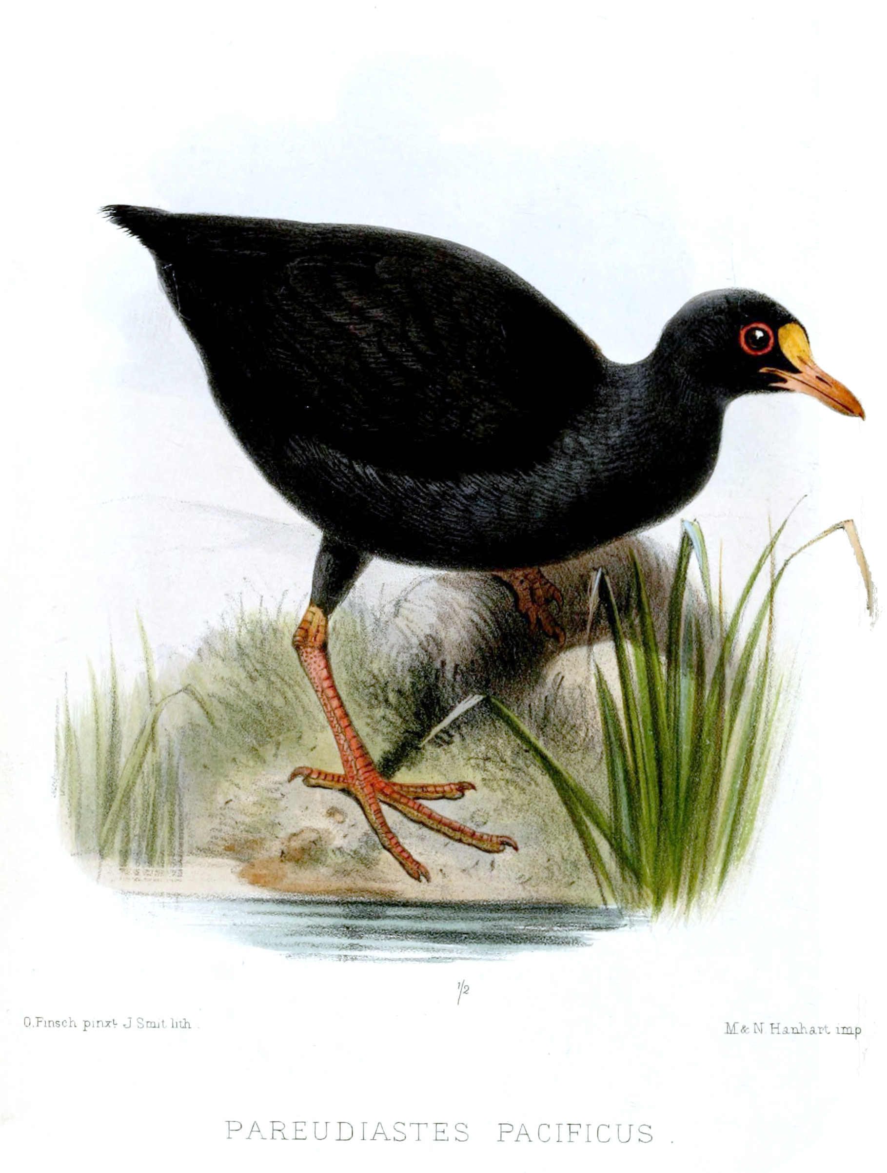 Pareudiastes pacificus =Gallinula pacifica, Plate.II from On a Collection of Birds from Savai and Rarotonga Islands in the Pacific.